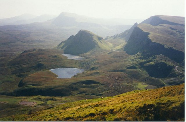 Blair A'Bhuailte, site of the Vikings' last stand in Skye, with Loch Leum na Luirginn and Loch Cleat